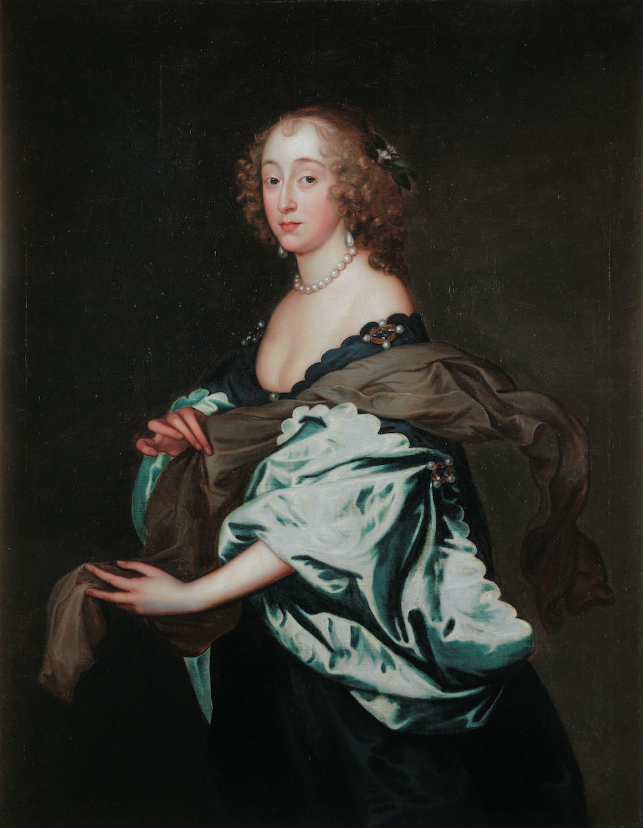 Lady Penelope Herbert, née Naunton, later Countess of Pembroke oil on canvas 124.8 x 97.7 cm